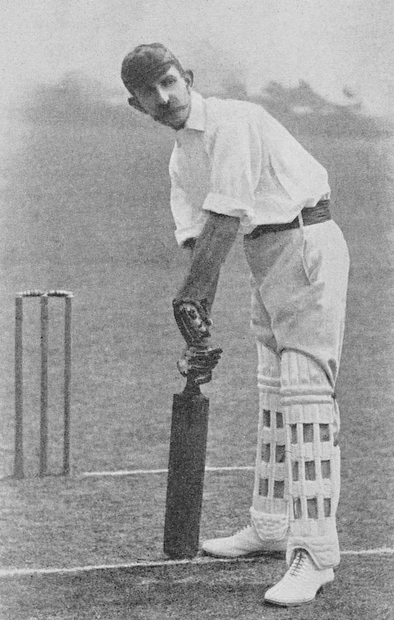 Scan of cricketer Arthur Luard